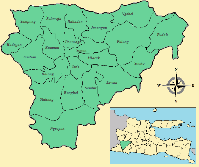 Map of Ponorogo Regency